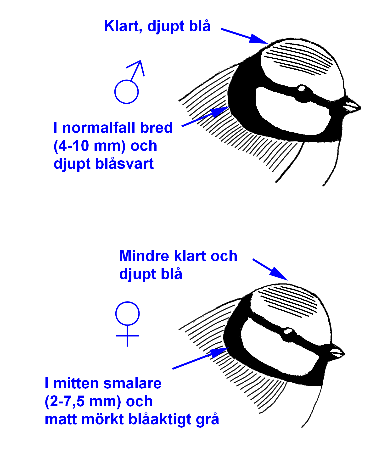 Swedish translation of Image:ParusCaeruleusSexDiff.png